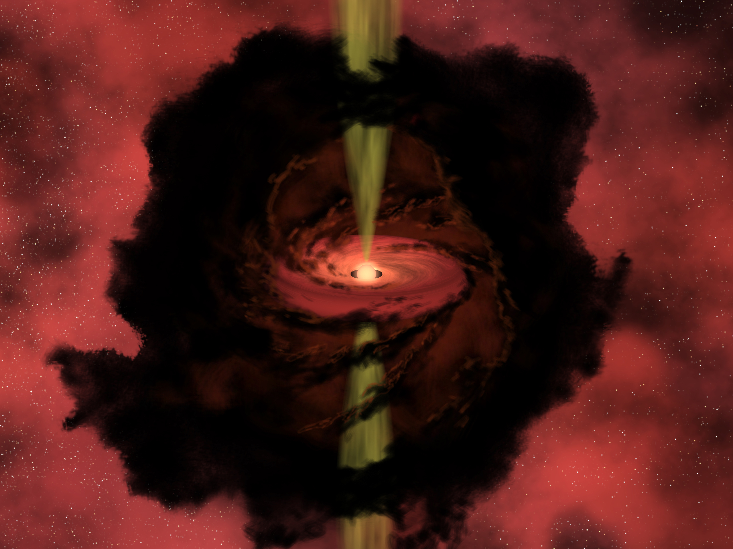 An artists conception of the birth of star L1014.